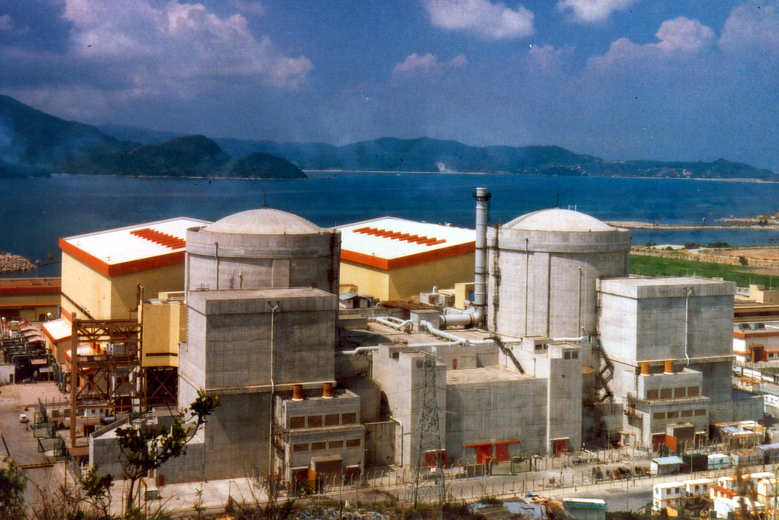 Guangdong nuclear power plant. (Guangdong, China) Photo Credit: Hong Kong Nuclear Investment Co.